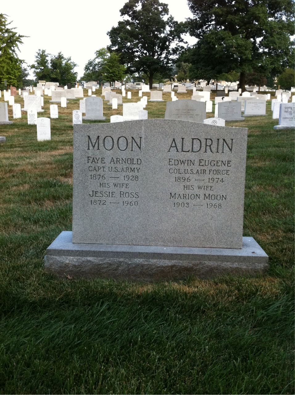 Grave of Edwin Eugene Aldrin Sr. at Arlington National Cemetery